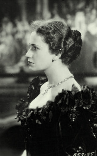 Publicity photograph of Peggy Ashcroft for 1936 film "Rhodes"